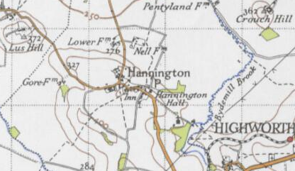 The parish of Hannington as shown on a Ordnance Survey map from 1945.